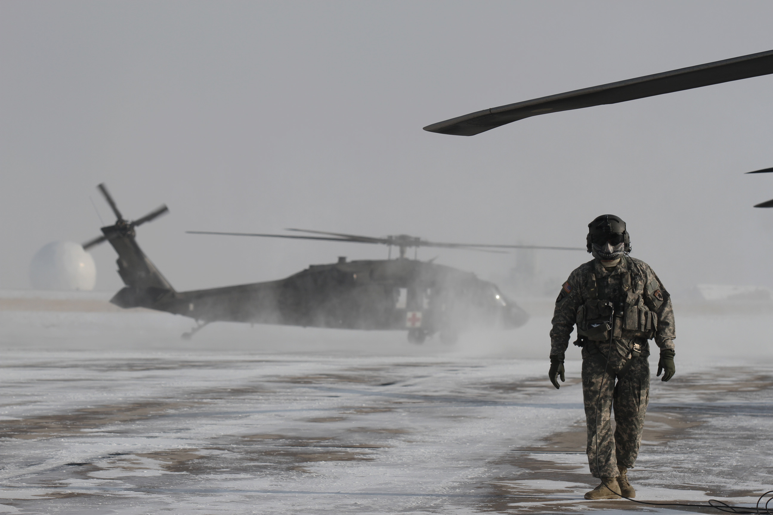 A Colorado Army National Guard crew chief conducts preflight checks on a UH-60 Black Hawk helicopter in preparation for a blizzard response exercise at Buckley Air Force Base, Aurora, Colo., Jan. 9, 2016. Colorado Guard members and various local agencies are participating in a blizzard response exercise with local authorities this week. (U.S. National Guard photo by Spc. Ashley Low/RELEASED)